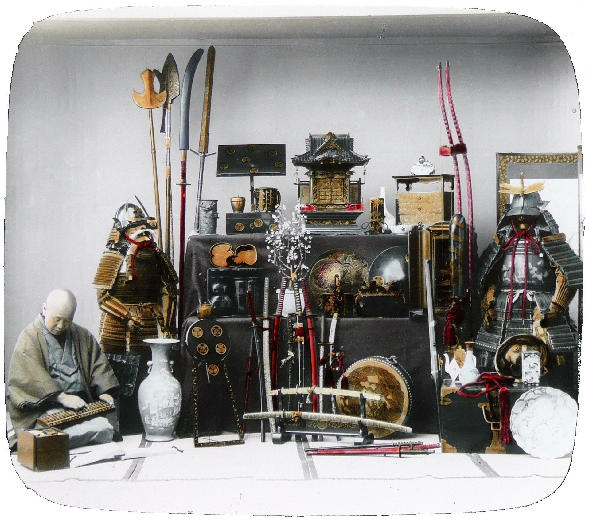 A collection of Japanese cultural objects including military paraphernalia ( Japanese armour, yumi, yari, katanas and tachi among others), as well as a small shrine, furniture, porcelain and lacquerware. Hand-colored glass slide.